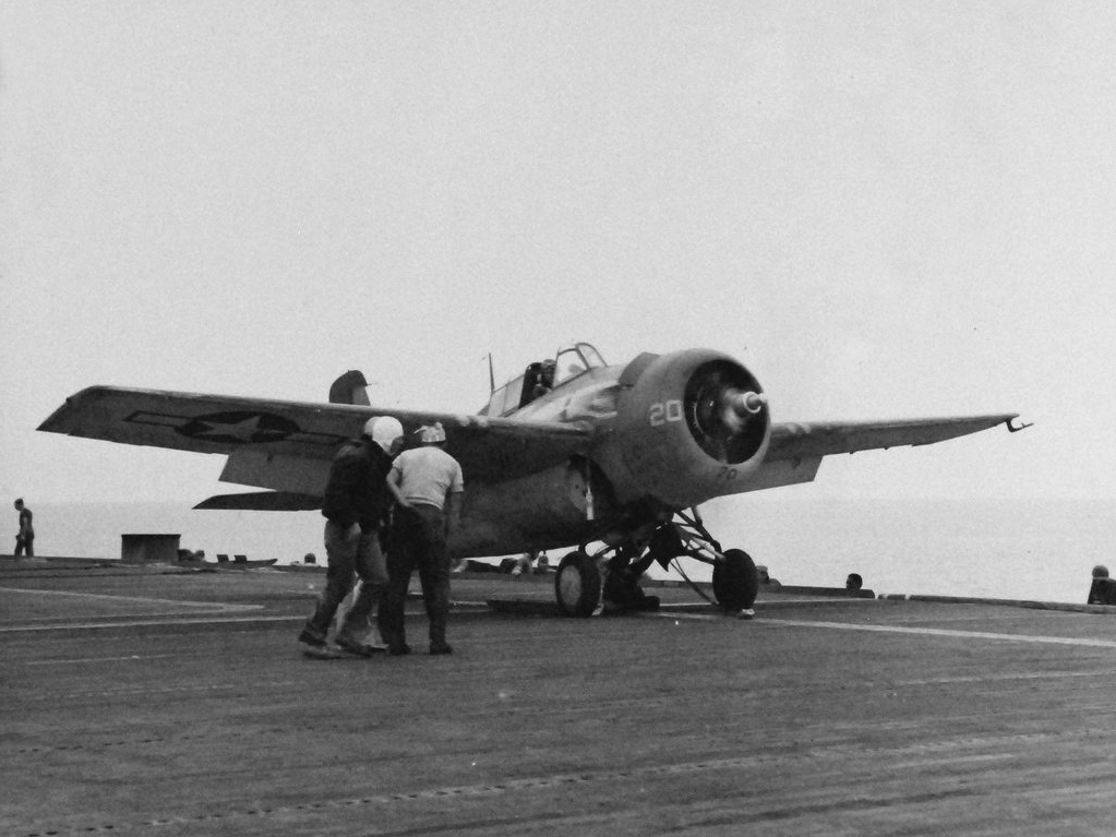 A General Motors FM-2 Wildcat prepares to launch from the port catapult of the U.S. Navy escort carrier USS Matanikau (CVE-101) on 27 July 1944. Matanikau was mostly engaged in carrier qualifications for the U.S. Pacific Fleet until July 1945.